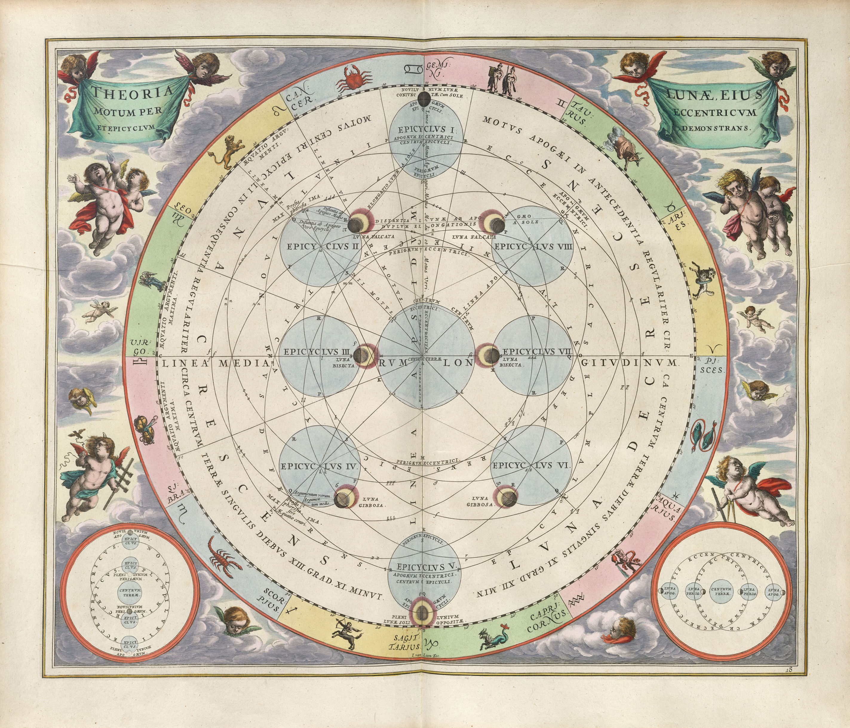 Andreas Cellarius: Harmonia macrocosmica seu atlas universalis et novus, totius universi creati cosmographiam generalem, et novam exhibens. Plate 18. THEORIA LUNÆ, EIUS MOTUM PER ECCENTRICVM ET EPICYCLVM DEMONSTRANS - Representation of the Moon showing its motion in an eccentric orbit with epicycles.